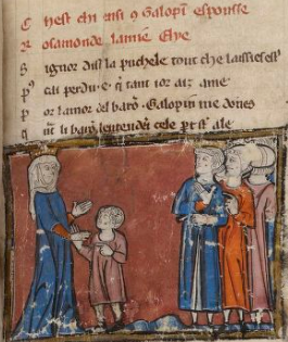 Miniature, four intermittent line and rubric from Elie de Saint-Gilles, ms. 25516 fr. of the BnF, fol. 95r. The rubric reads 'Ch’est chi ensi com Galopins espousse Rosamonde l’amie Elye' (it's here how Galopin marries Rosamund the friend of Elie).